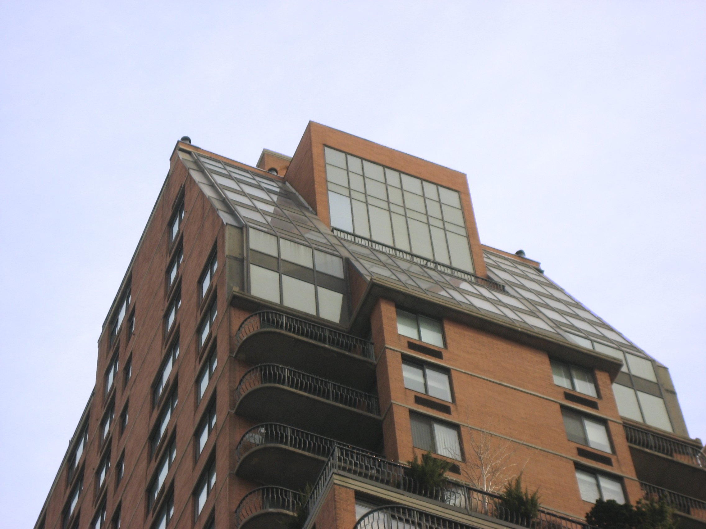 The upper and penthouse floors of The Forum at 343 East 74th Street, New York, NY 11021